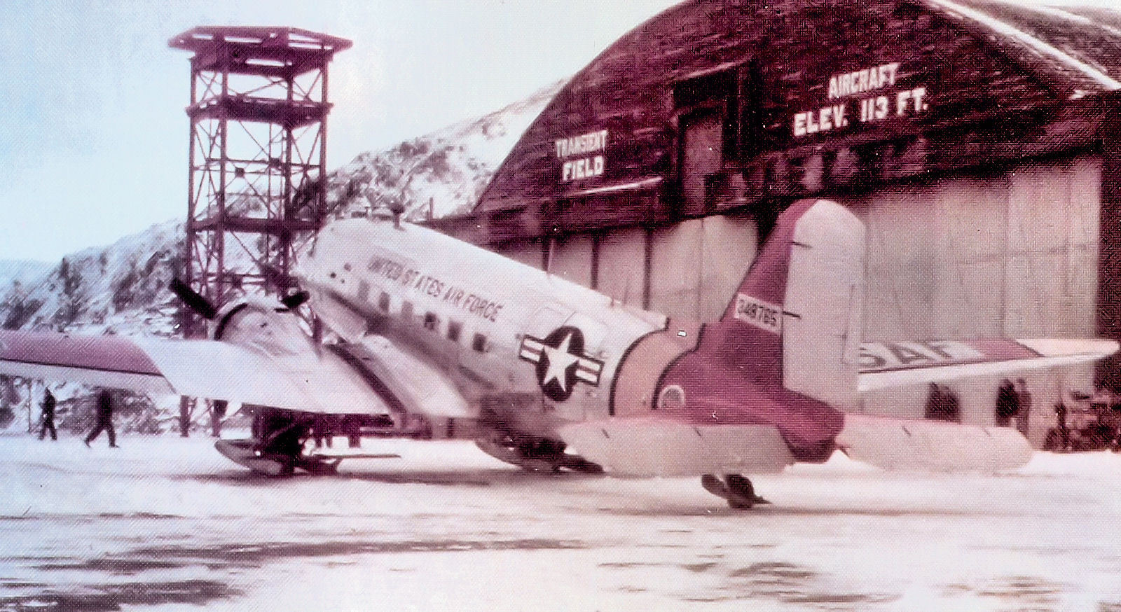 USAF C-47 at Sonderstrom AB, Greenland